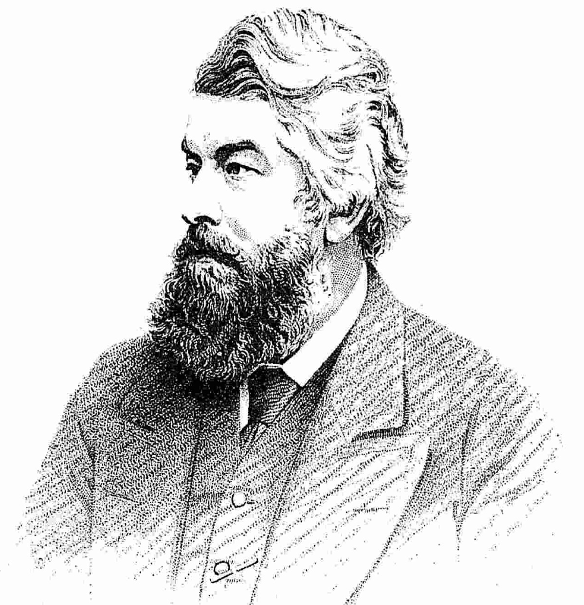 Sir John Dugdale Astely, owner of Elsham Hall, Lincolnshire